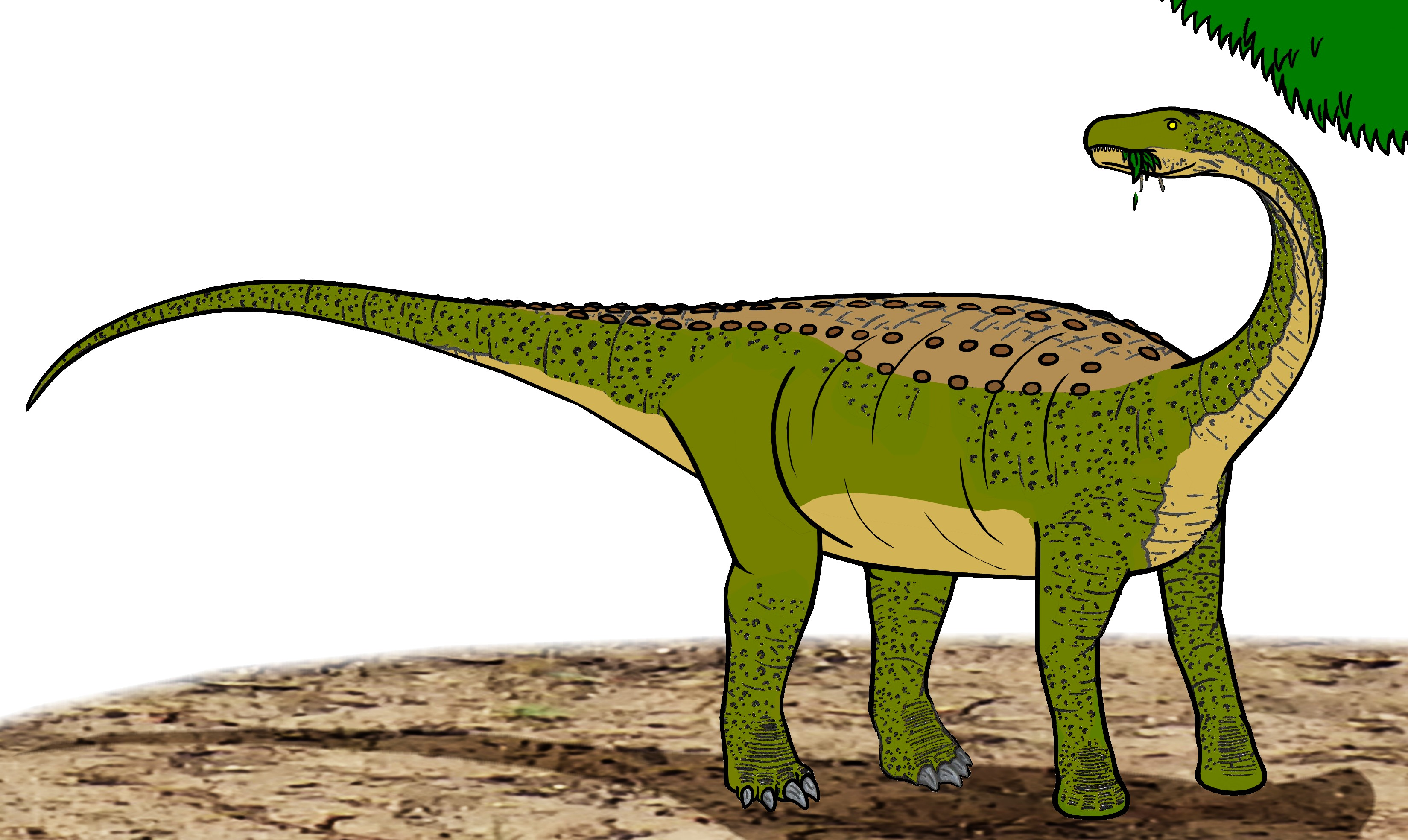 Illustration of the dwarf-sized sauropod dinosaur Magyarosaurus ( Romania, dated by scientists to the late cretaceous )